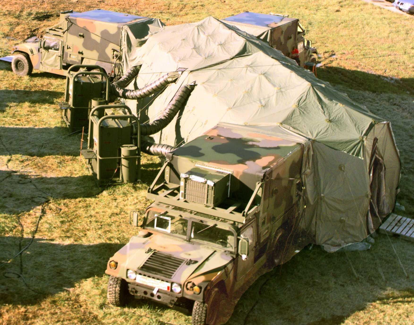 DASC overhead photo